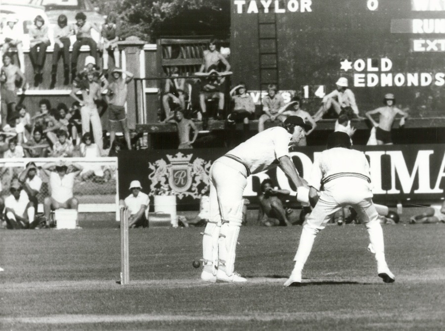 February 1978, Basin Reserve, Wellington AAQT 6539 W3537 box 16 L7/14/2/237